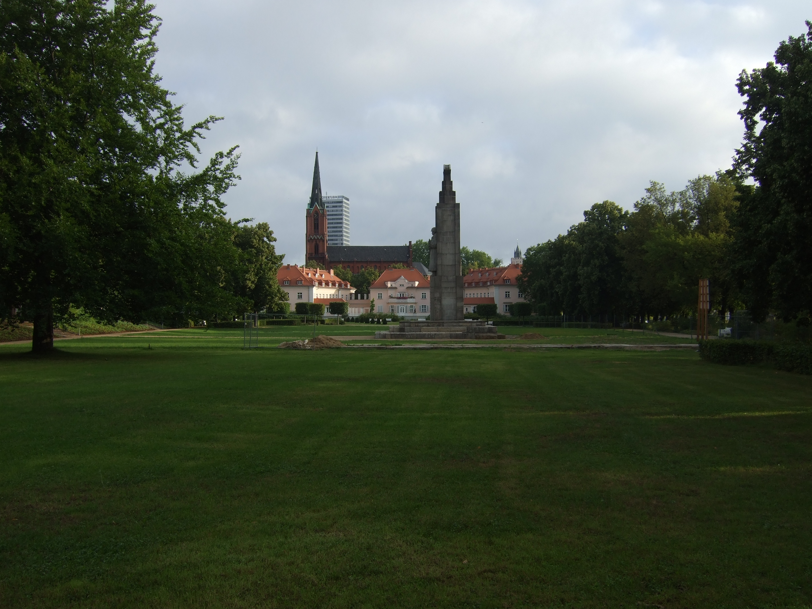 Park "Anger" with Red Army War Memorial and St. Gertraud Church in Frankfurt (Oder), Germany.